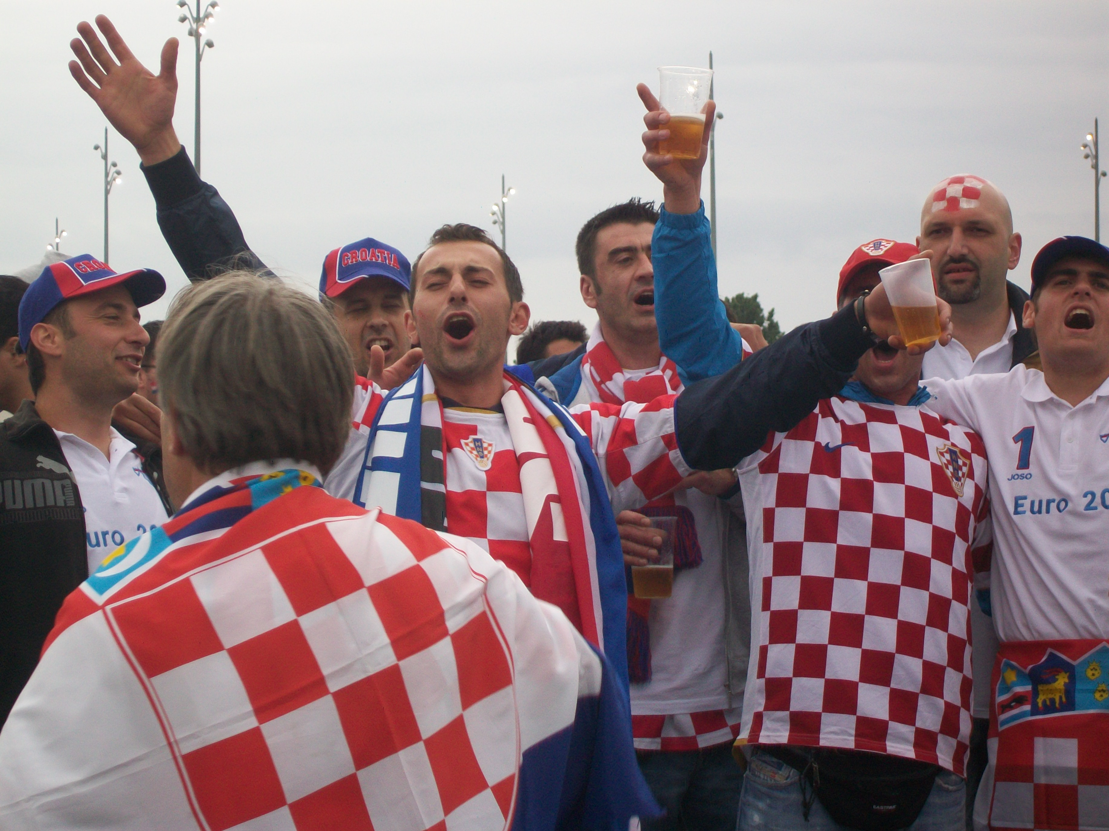 Croatian supporters before Croatia - Italy match during Euro 2012, Poznań, June 14